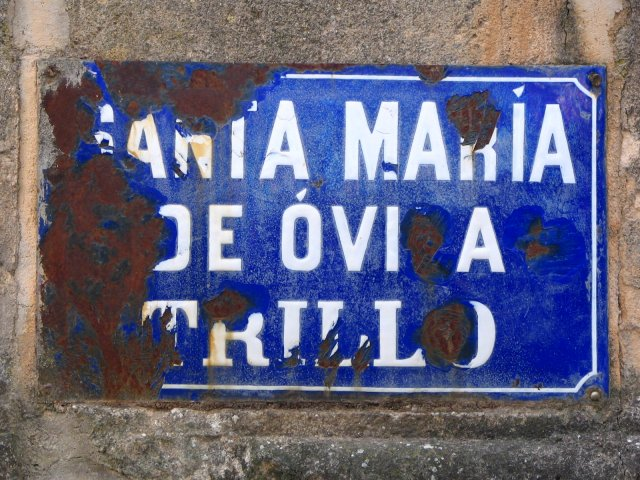 An old enamelled sign belonging to Santa Maria de Ovila, a Spanish monastery that was largely disassembled by an agent of William Randolph Hearst in 1931 and shipped to San Francisco, California. Some of the elements of the monastery complex were left standing, including this sign.